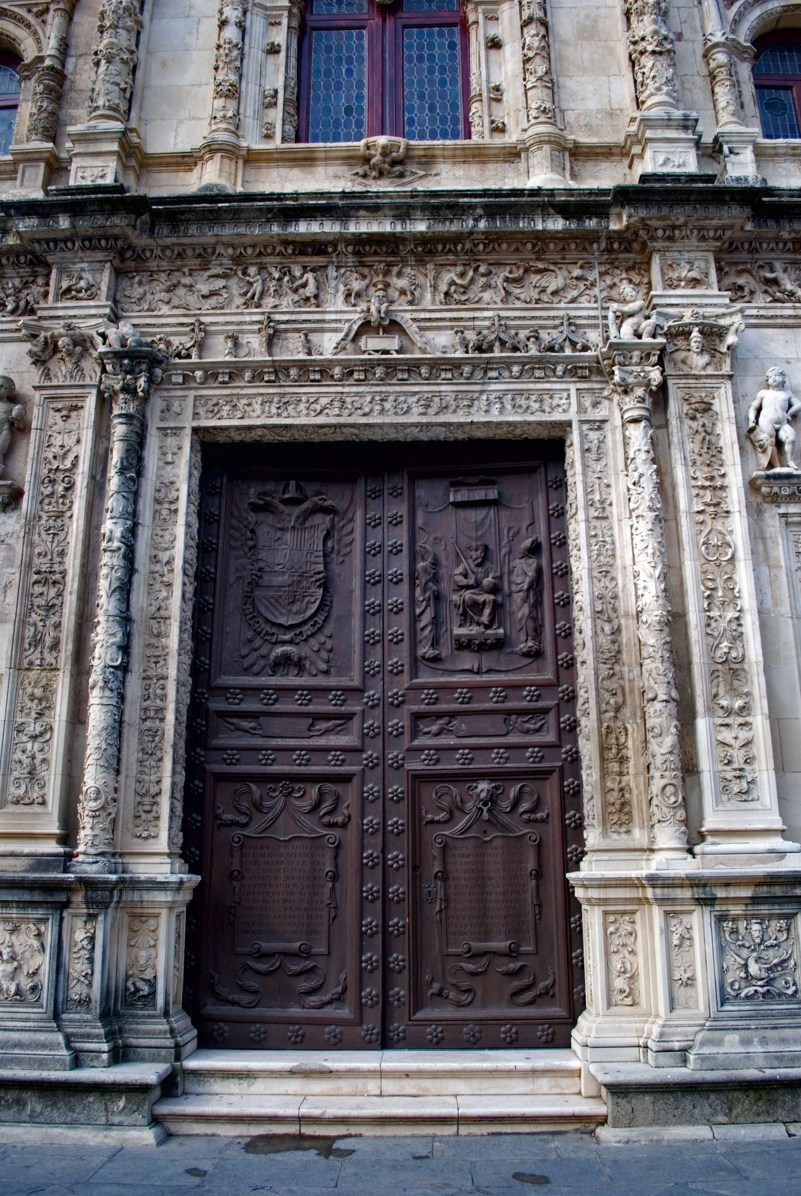 Town hall of Seville.